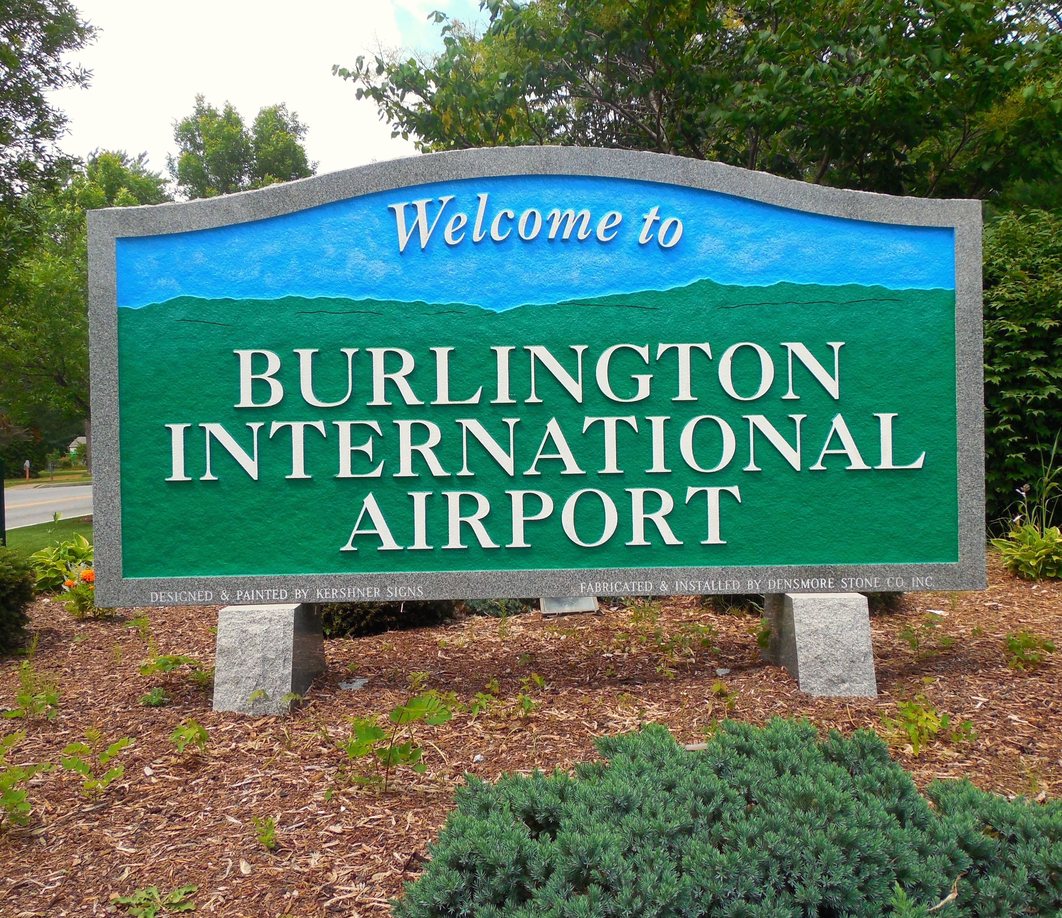 BTV_AirportSign_20150714